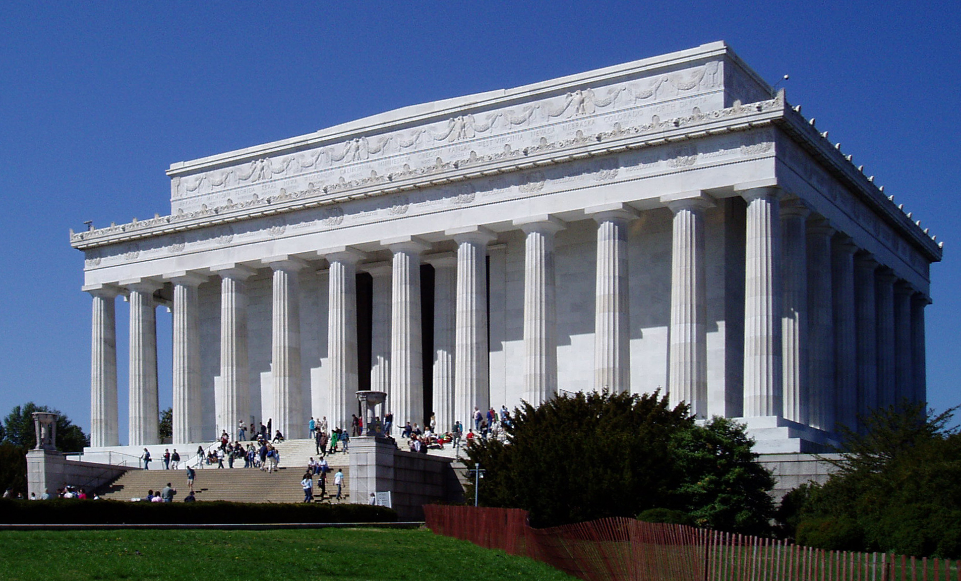 The Lincoln Memorial is a national memorial on the National Mall in Washington, D.C. dedicated to Abraham Lincoln, the 16th President of the United States. The memorial was designed by architect Henry Bacon and dedicated in 1923. The statue of Lincoln was carved of white marble by Daniel Chester French and completed in 1922.